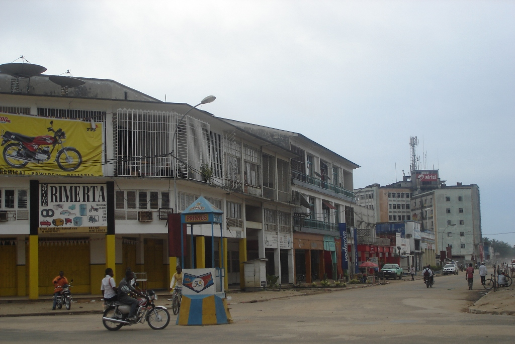 Roundabout in central Kisangani. Congo Palace building in the back.